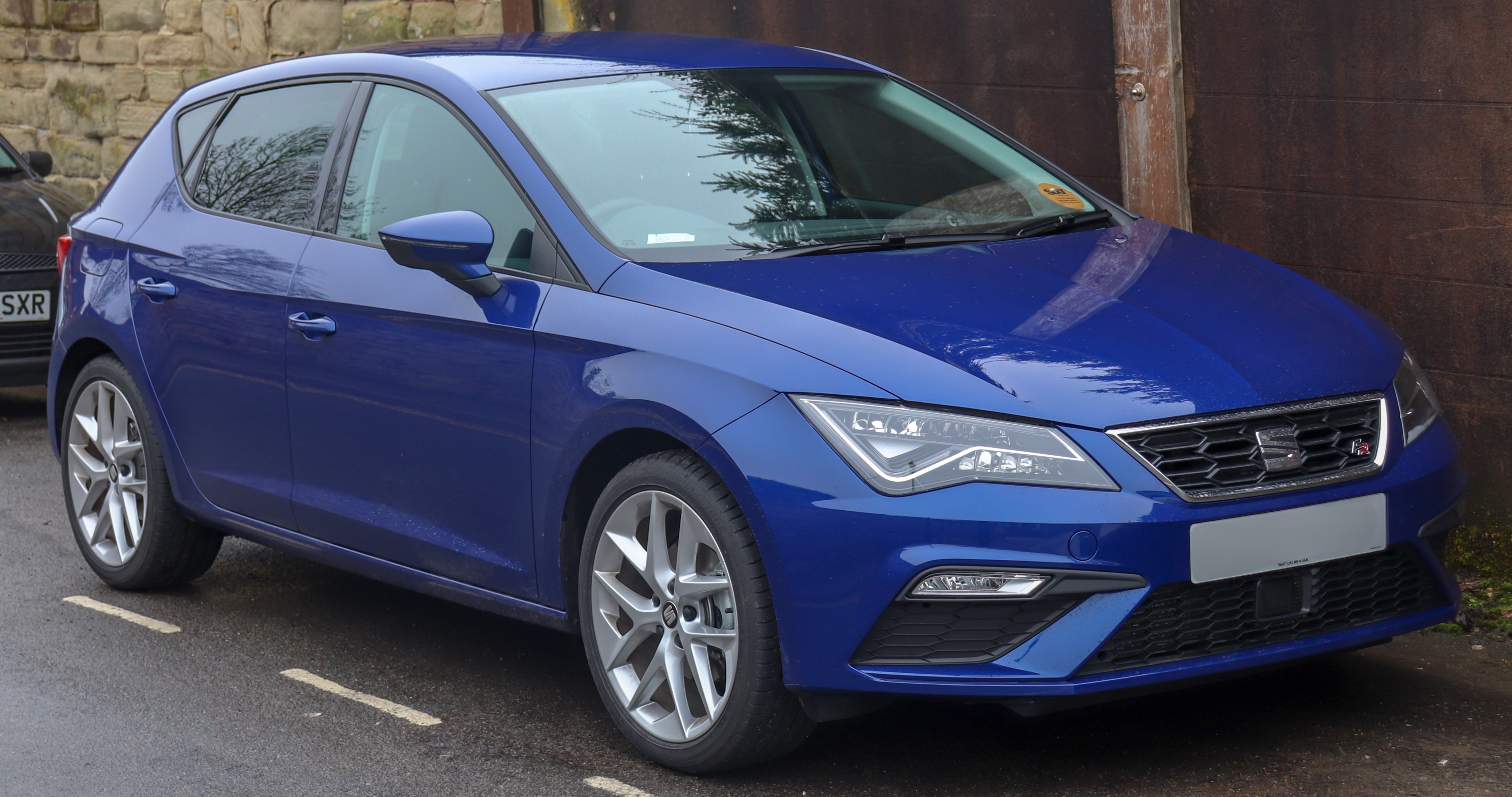 2018 SEAT Leon FR Technology TSi S-A 1.4 Front Taken in Warwick